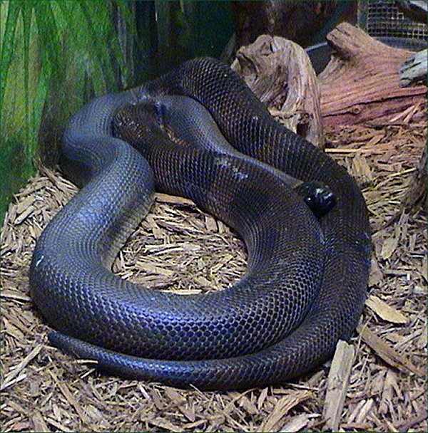 Bothrochilus boa